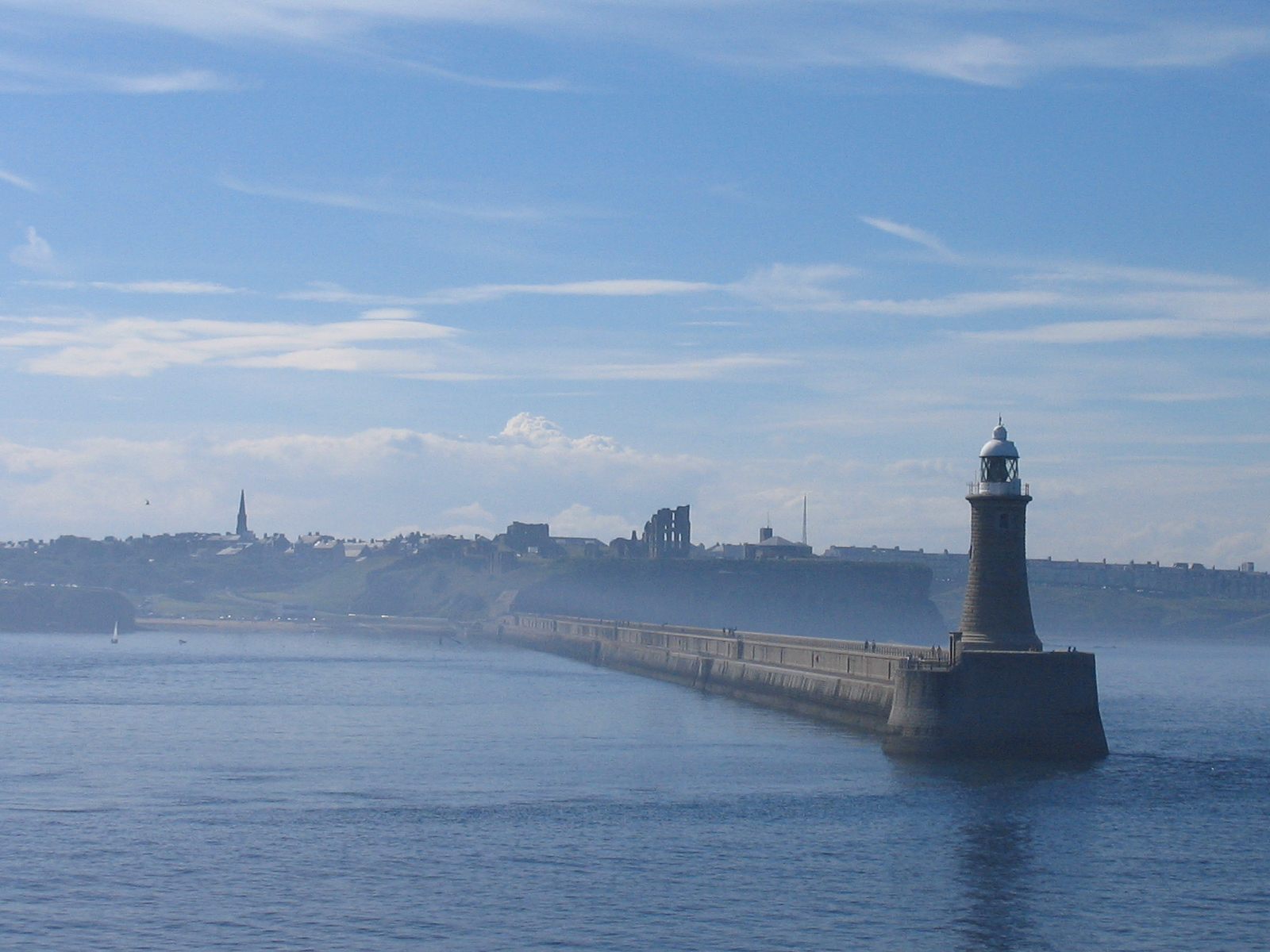 A lighthouse in Tynemouth, North Tyneside